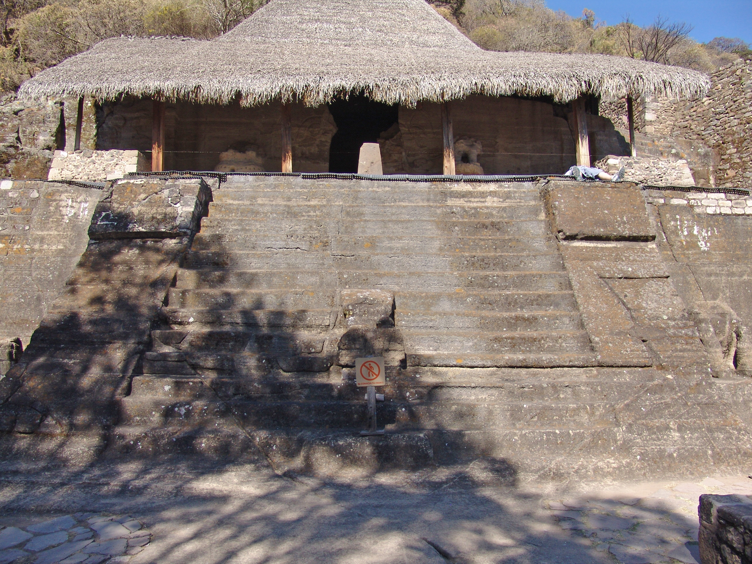 Robert Ackerman, I took this photo on a recent trip to Mexico, variations at